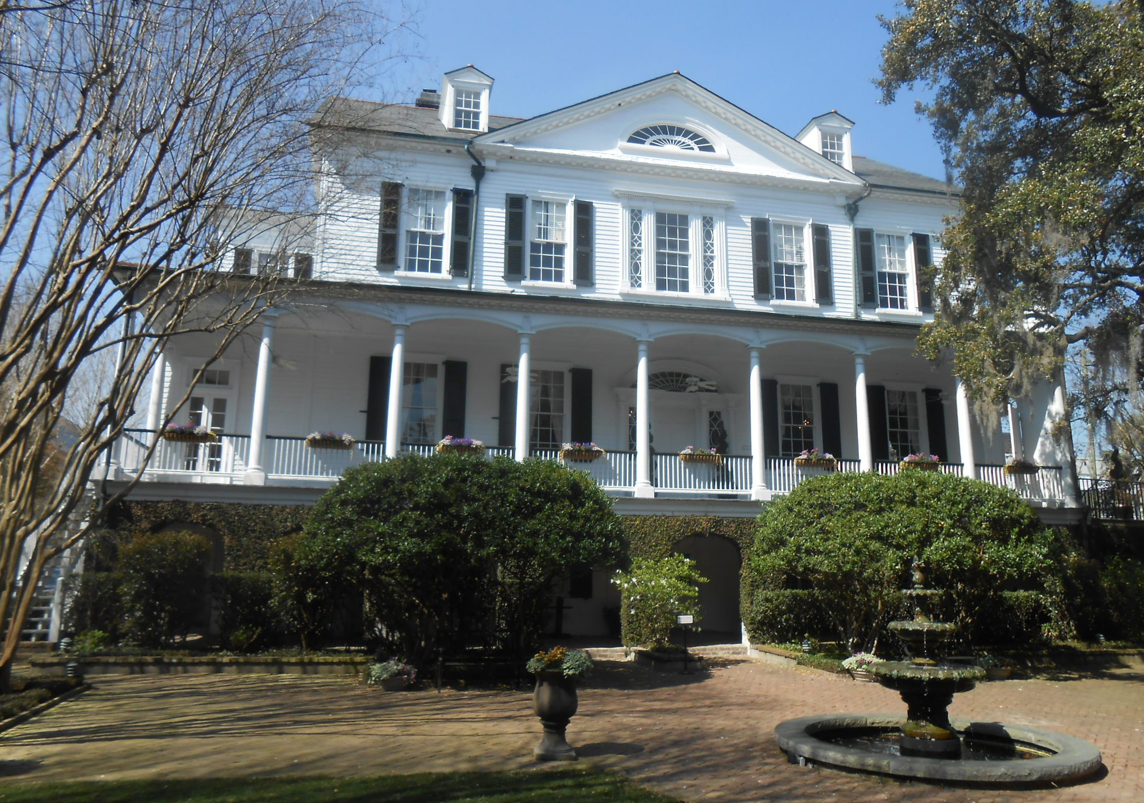 The Thomas Bennett House is shown here from its garden on the south side of the building.